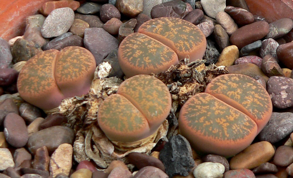 Photo of Lithops lesliei at the University of California Botanical Garden